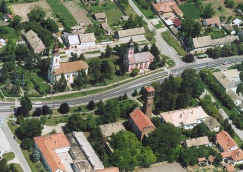 Magxarcsanád, Hungary, aerialphotography